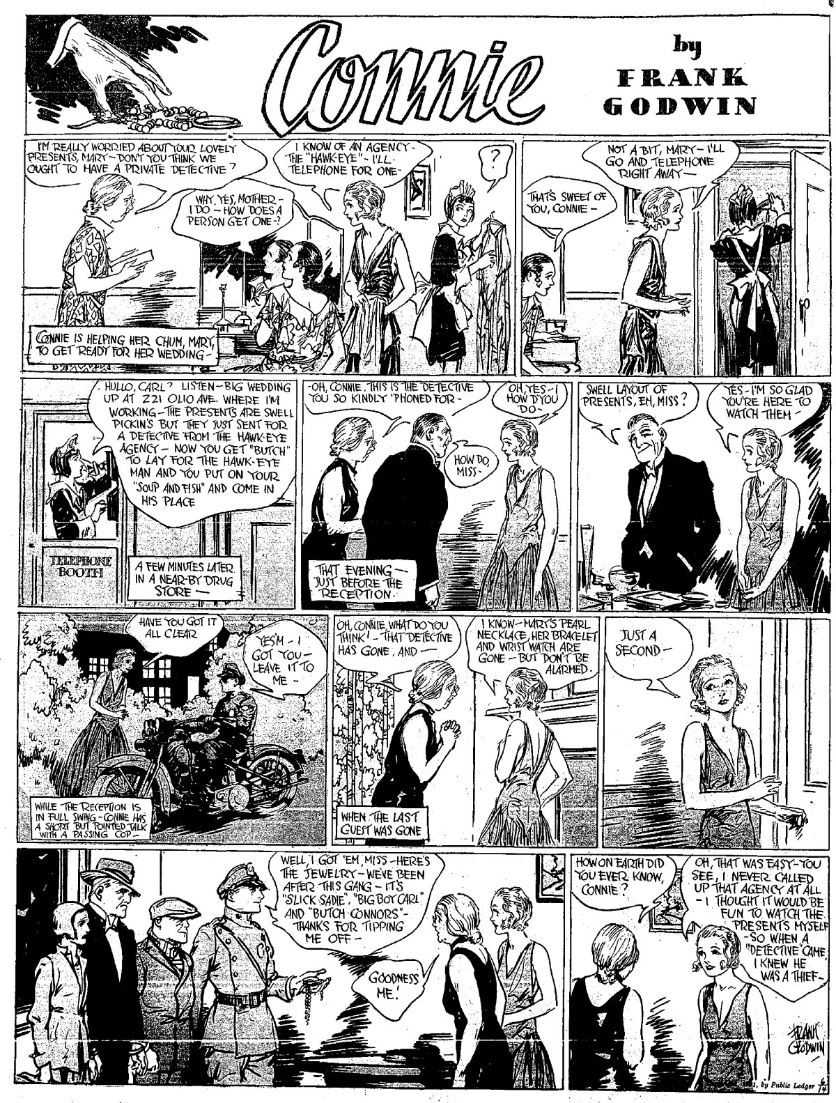 Connie comic strip A search was done for renewal in contributions to publications and artwork for the years 1958 and 1959. There were no listings for Frank Godwin, Public Ledger or Connie, a comic strip. There's no evidence this is still under copyright.